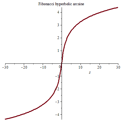 Fibonacci hyperbolic arcsine 2D